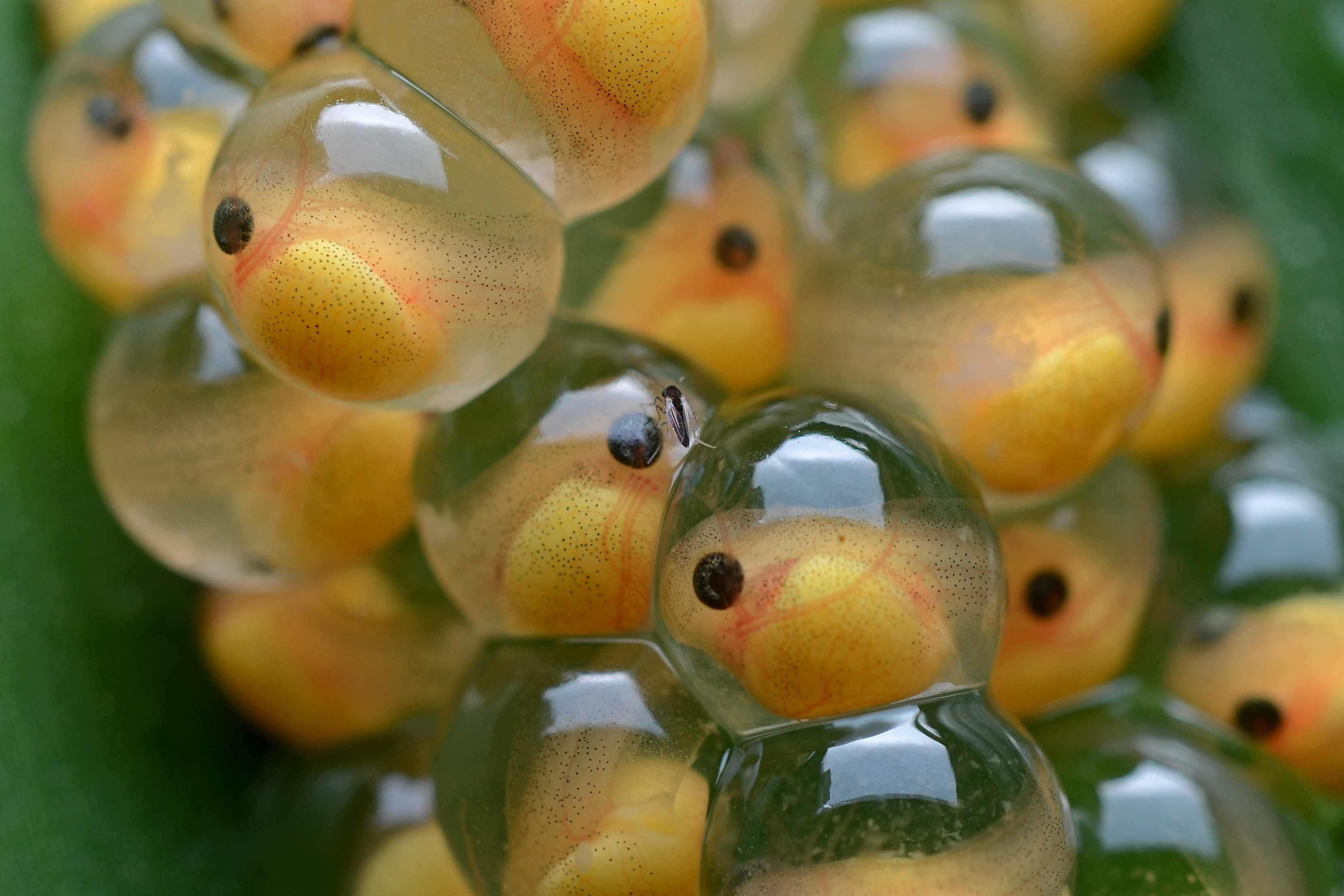 Frog eggs/tadpoles with fly